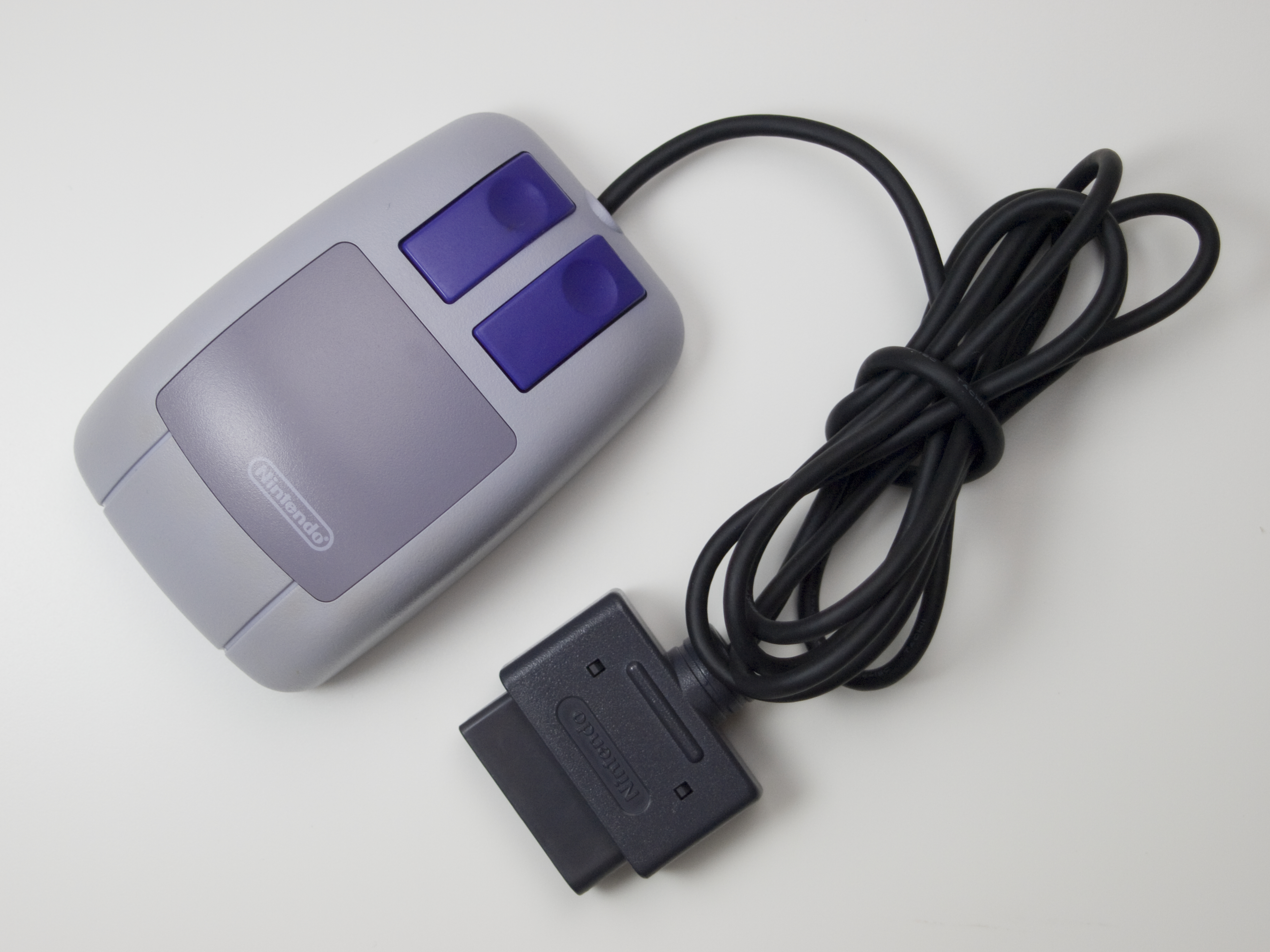 Super NES Mouse, peripheral for the Super Nintendo Entertainment System